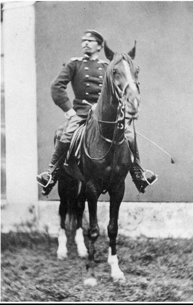 Captain on a horse (Ana Feldman, 1866)